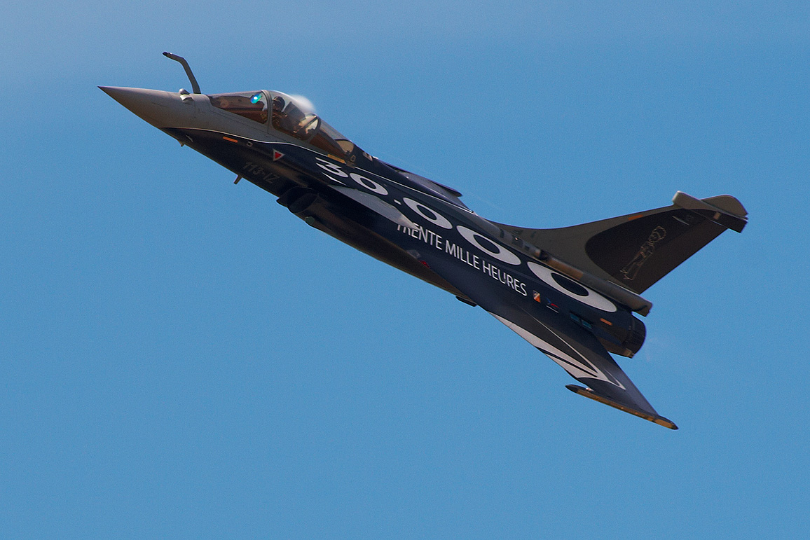 Dassault Rafale on MAKS 2011